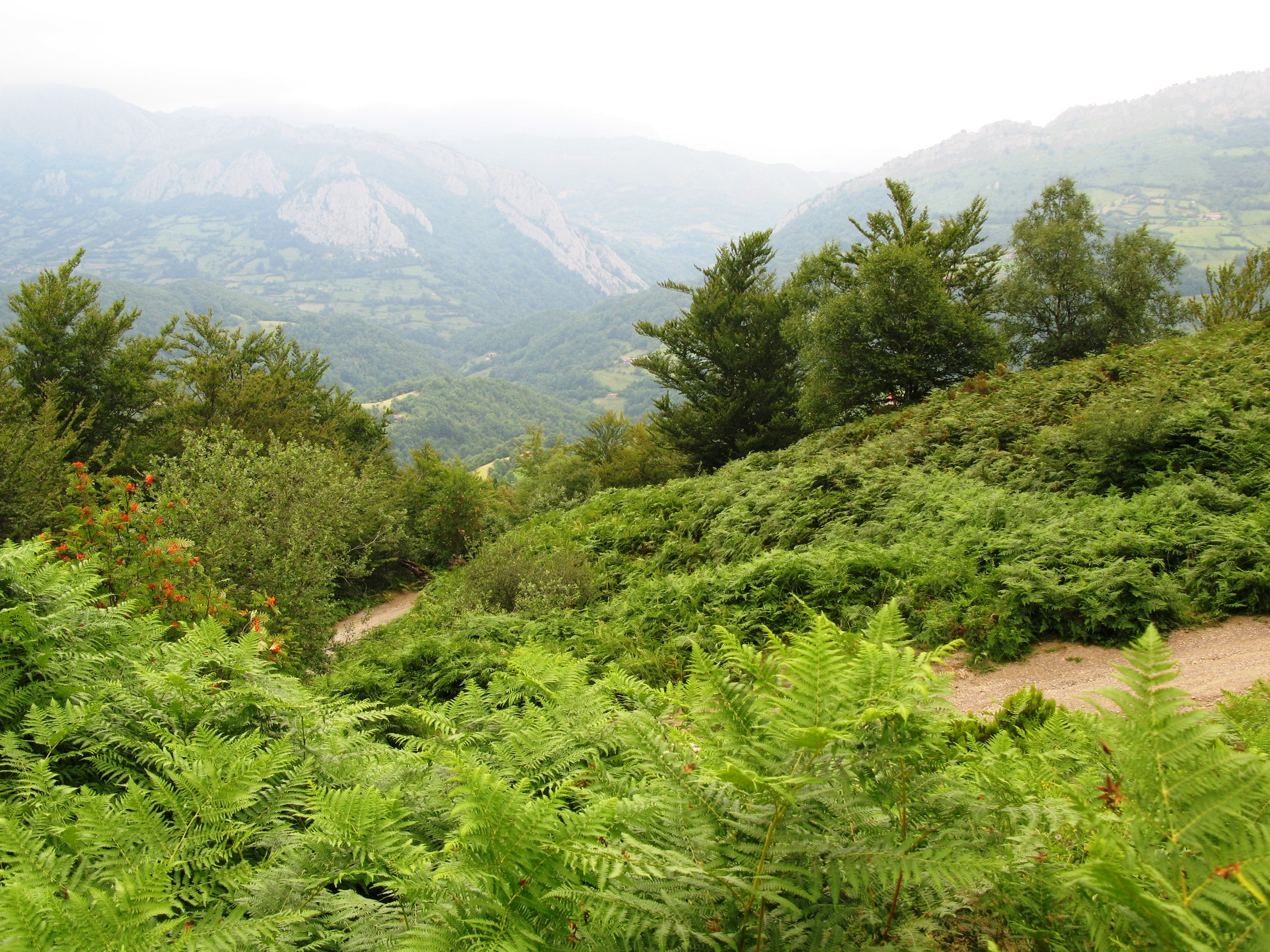 This is a photography of a Special Area of Conservation in Spain with the ID: ES1200008. Natura2000 entry, EEA entry